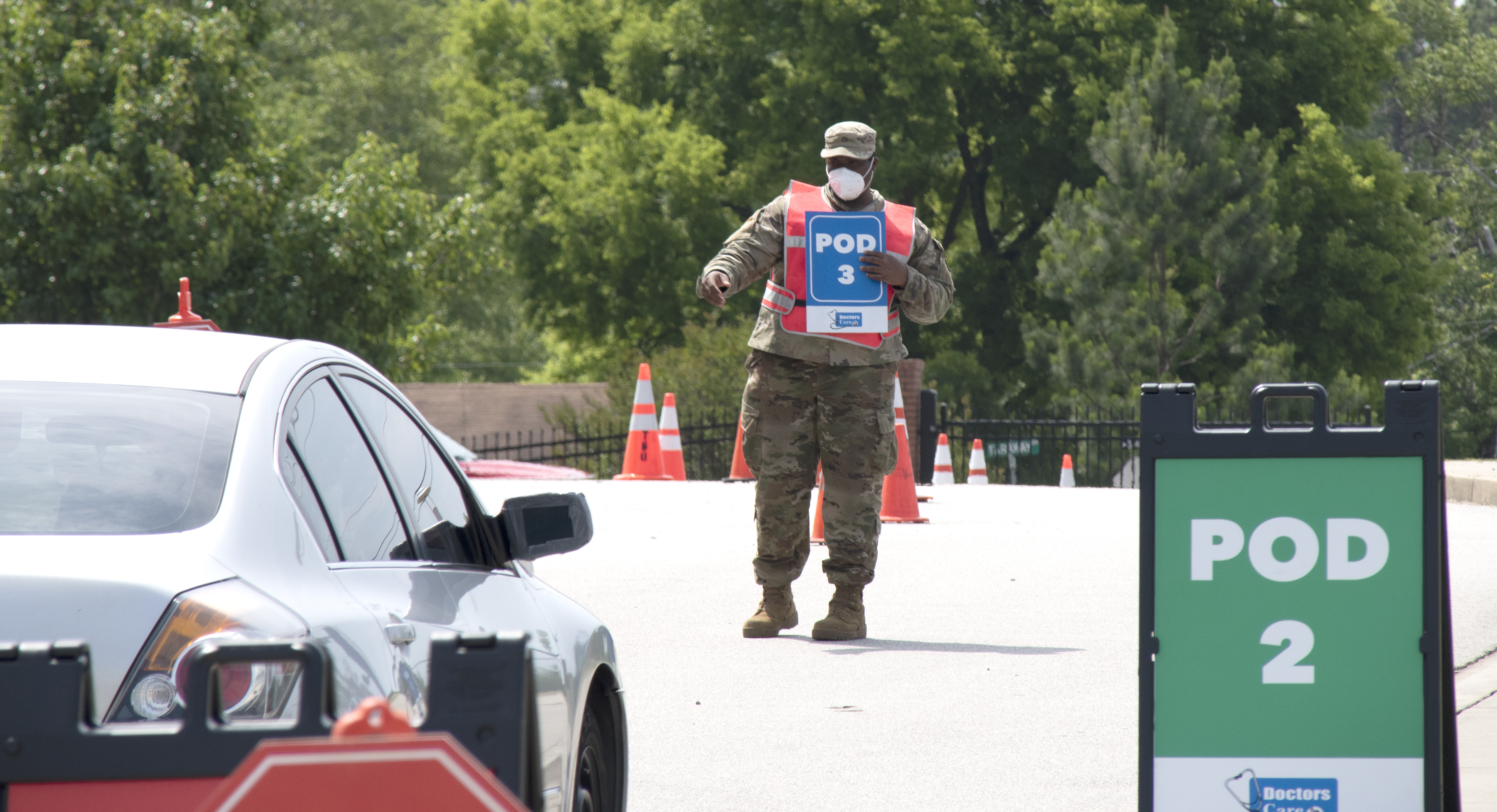 U.S. Army National Guard Soldiers with the South Carolina National Guard direct traffic through a mobile testing site, May 22, 2020 at Richland Northeast High School in Columbia, South Carolina. South Carolina National Guard Soldiers have been assisting the testing site, which provides free COVID-19 testing to citizens of South Carolina for nearly a month. The South Carolina National Guard remains ready to support the counties, state and local agencies, and first responders with requested resources for as long as needed in support of COVID-19 response efforts in the state. (U.S. Army National Guard photo by Staff Sgt. Brad Mincey, South Carolina National Guard)